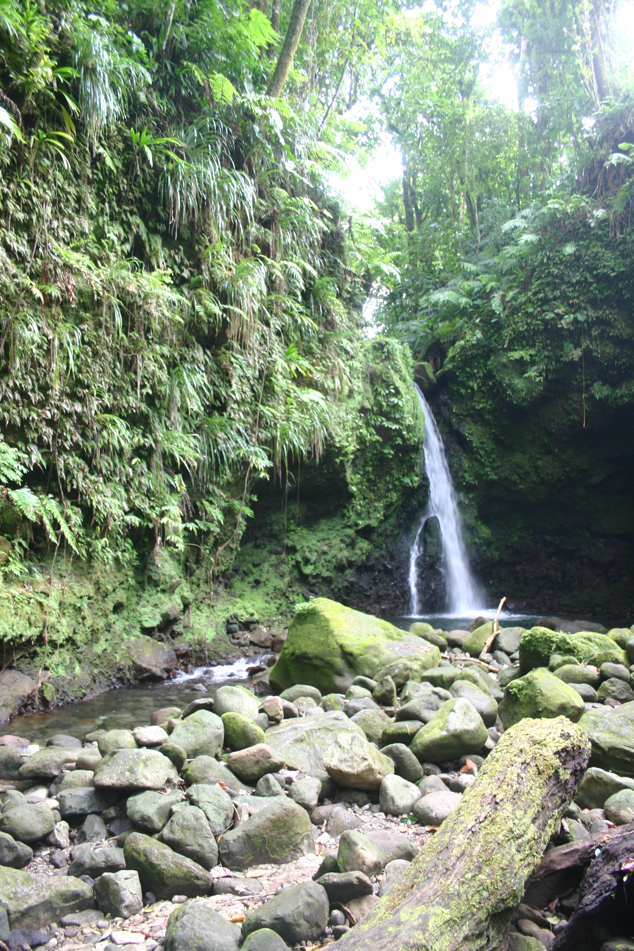 A small tropical waterfall surrounded by plants on the island of Domenica in the Caribbean.